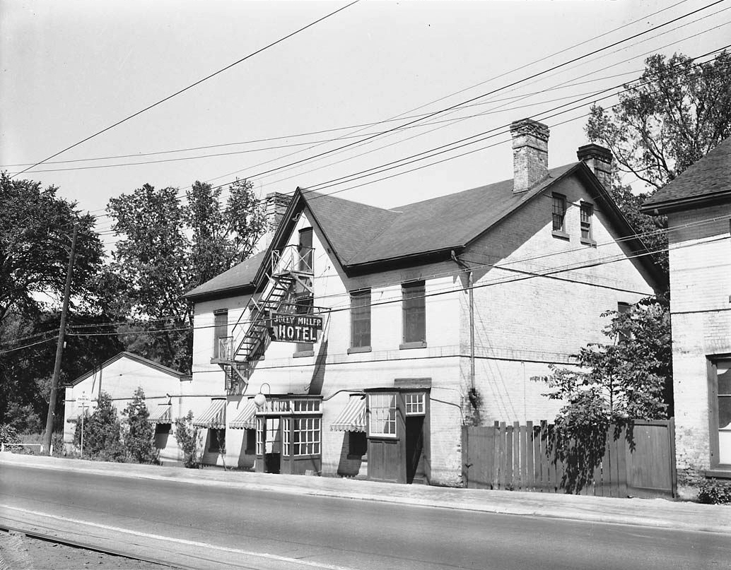 Jolly Miller Tavern and Hotel (originally the York Mills Hotel), 3885 Yonge Street, between Mill Avenue and York Mills Road, North York Township (now part of Toronto), Canada.